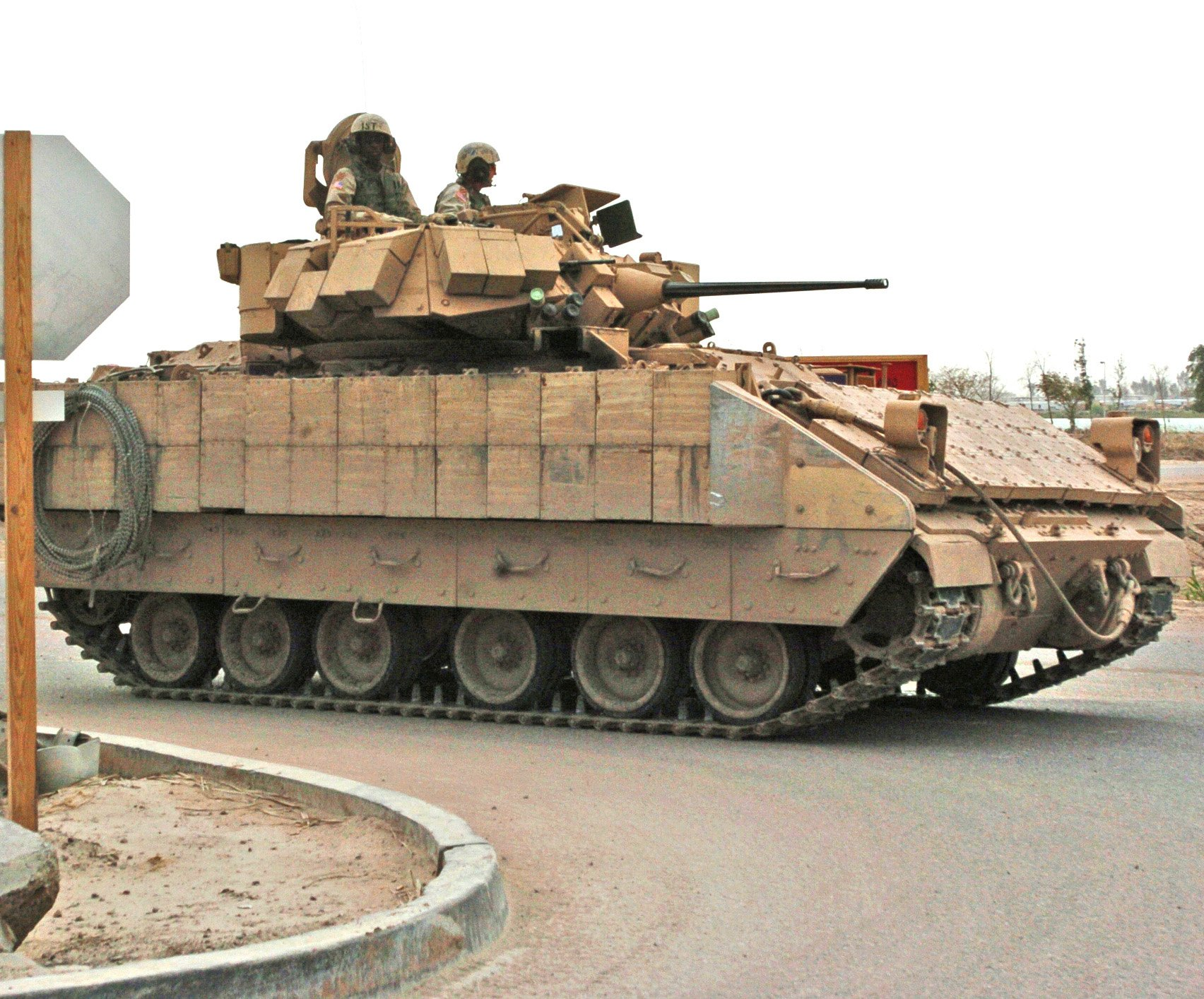 Infantrymen in their M2 Bradley Fighting Vehicle from A Company, 3rd Battalion, 7th Infantry Regiment, 3rd Infantry Division US-Army. Baghdad, Iraq.